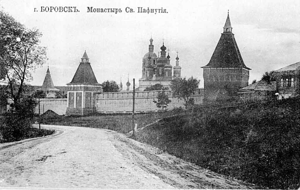 Borovsk. Pafnutiev Monastery. Photo by A.V.Muratova, printed either in 1910 or in 1913.